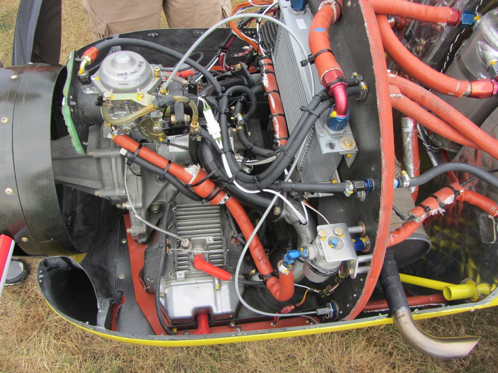 Aerohia LT-1 Engine